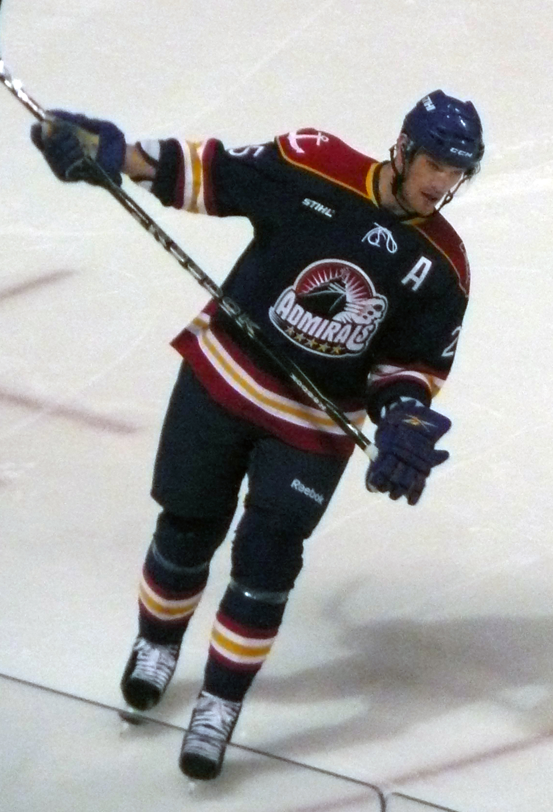 Adam Hall of the Norfolk Admirals skates against the Wilkes-Barre Scranton Penguins at the Wachovia Arena, Wilkes-Barre, PA on 1/6/2010